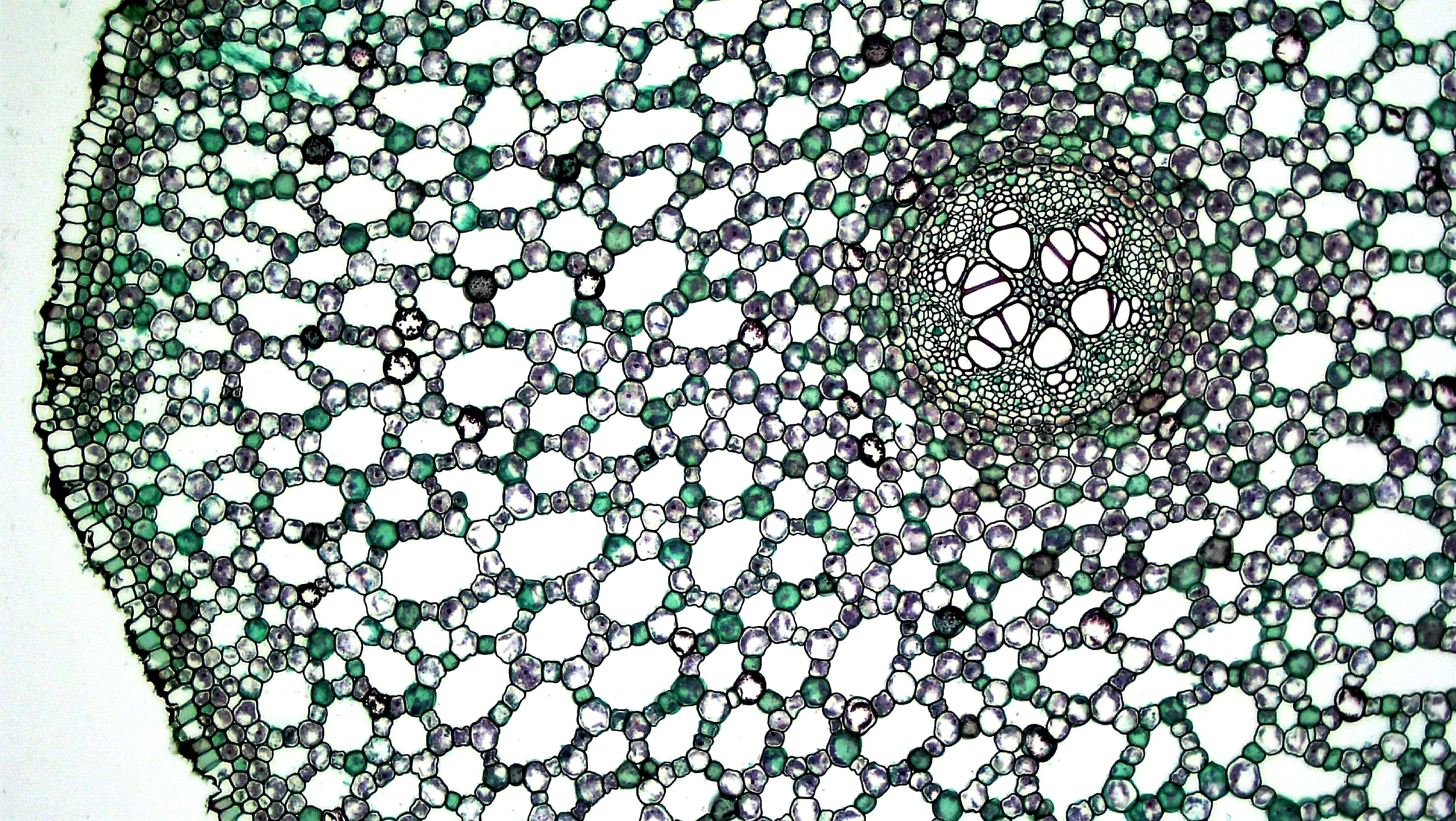 cross section: Acorus root common name: Sweet Flag magnification: 100x Berkshire Community College Bioscience Image Library The single layered epidermis lacks any significant cuticle. Root hairs appear as unicellular extensions of epidermal cells. The cortex is well-developed and divided into two zones; an outer narrow layer of closely packed smaller parenchyma cells and a wide inner layer of open larger aerenchyma cells. The inmost area of the cortex is bounded by an endodermis or starch sheath with larger barrel shaped cells and thickened walls that mark the casparian strip. Within the endodermis occasional small passage cells serve to transport water into the stele or vascular bundle. The stele is bound in a pericycle of single layered thin walled parenchyma cells. A single central vascular bundle contains radiating arms of xylem and phloem. The xylem is exarch: meaning the earlier smaller protoxylem is found towards the periphery and younger larger metaxylem to the center of the stem. Phloem tissues of sieve tubes, companion cells and phloem parenchyma are also exarch. The older protophloem is found towards the periphery and metaphloem towards the center of the stem. Supportive sclerenchyma tissues and phloem caps are notably absent in most monocot stems. Vascular cambium is also absent, preventing secondary growth of the root. The central region of the stele is occupied by thin walled starch containing aerenchyma cells.